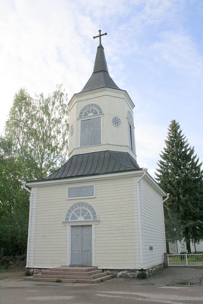 The belfry of the church of the Evangelic-Lutheran parish in Lapinjärvi, Finland. The belfry for both the Finnish and Swedish church in Lapijarvi was built 1827.